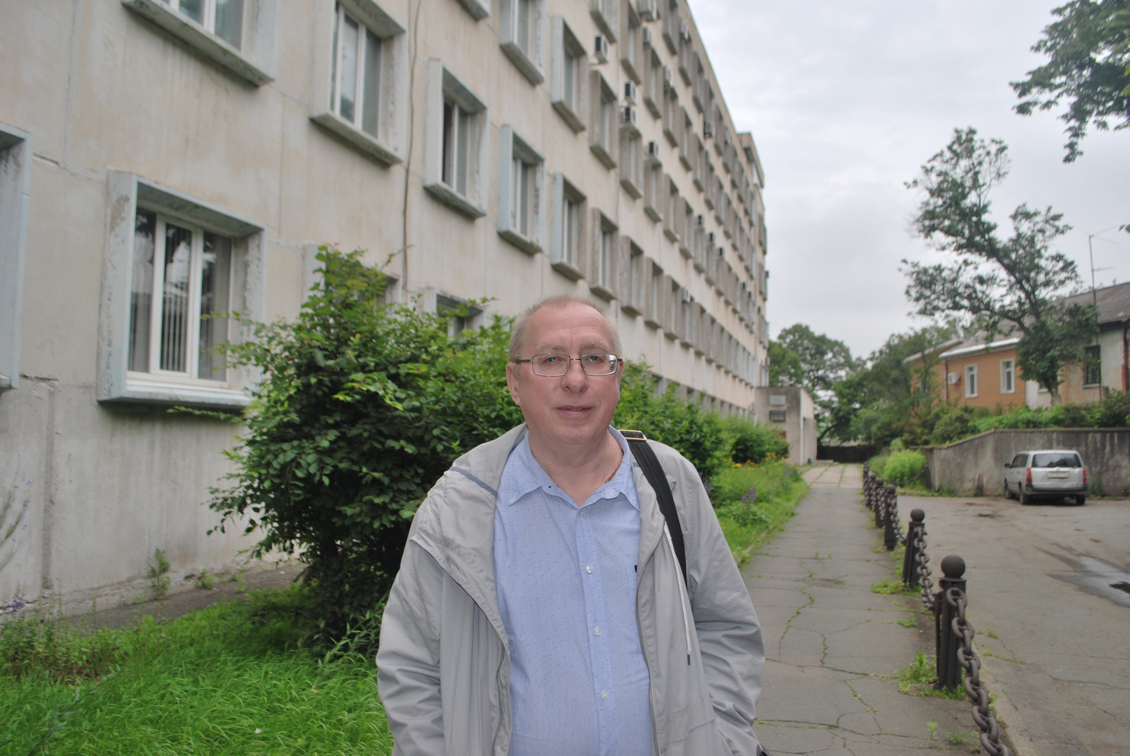 Professor Bocharnikov Vladimir Nikolaevich near the building of the Pacific Institute of Geography in Vladivostok